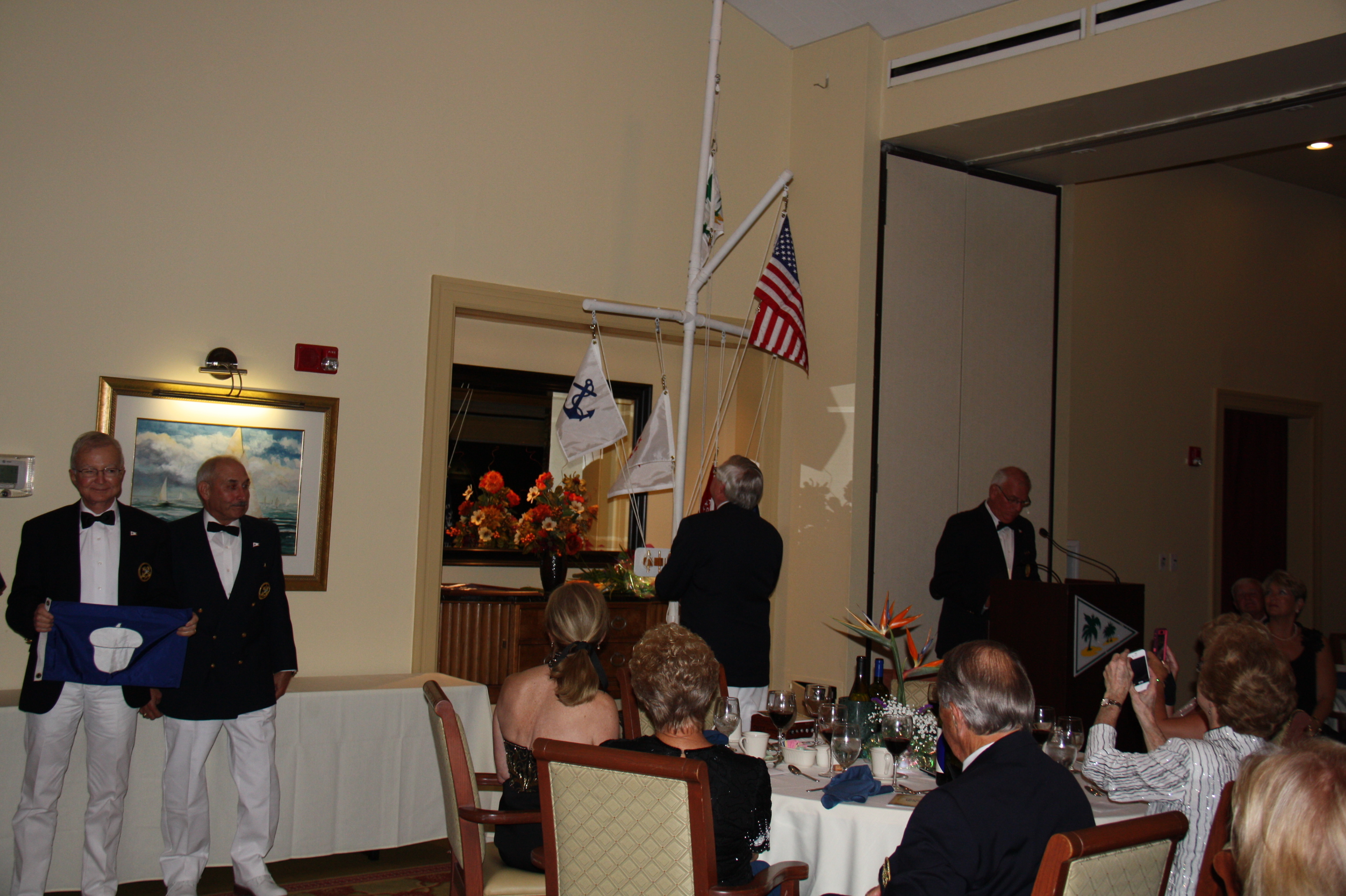 Change of Watch 2016